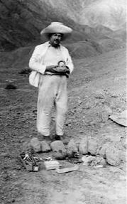 This is a picture of Rafael Larco Hoyle, founder of the Larco museum, at an excavation in 1935. Larco Museum Native nameMuseo Arqueológico Rafael Larco HerreraLocationAv. Bolivar 1515, Pueblo Libre, Lima, PeruCoordinates12° 04′ 20.99″ S, 77° 04′ 15.1″ W Established28 July 1926Web page control : Q1954240 VIAF: 123465272 ISNI: 0000 0001 2150 3342 LCCN: no97060570 GND: 5268907-4 WorldCat institution QS:P195,Q1954240